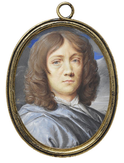 Thomas Flatman, 1635-88, Self-portrait, Dated 1673, Watercolour on vellum, stuck to a table-book leaf, Signed lower left 'TF' in monogram, and dated 1673. Inscribed in graphite on the back 'Portrait / of / Thomas Flatman / (the poet) / by himself / 1673' V&A Museum no. P.79-1938, Given by the Basil S. Long Memorial Fund Thomas Flatman, a lawyer, poet and miniaturist, described himself as a 'Gentleman'. This searching self-portrait is typical of his unglamorous miniatures, which were mostly of friends, fellow lawyers and officials.